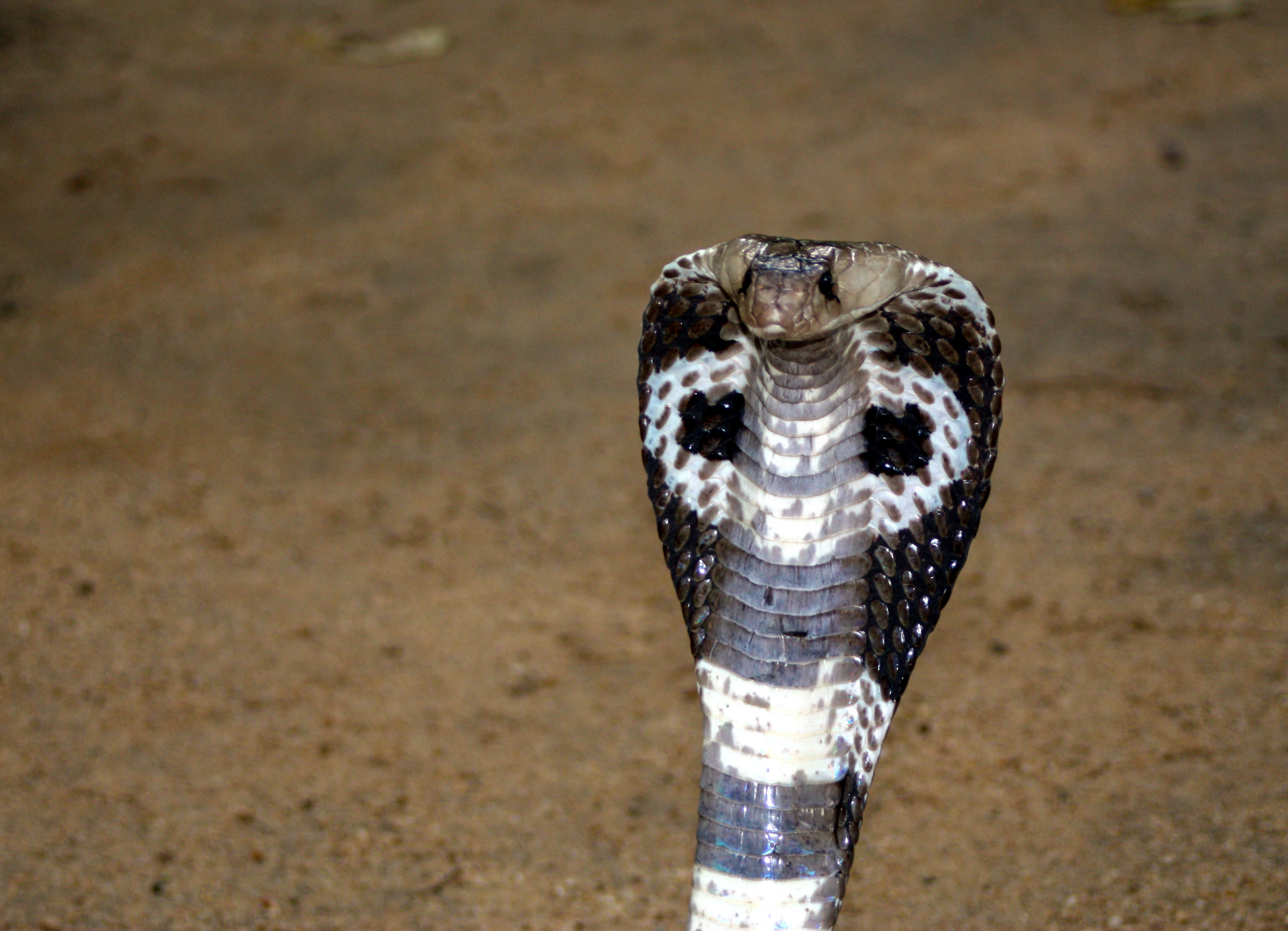 Front view of an Indian Cobra. Photographed at the Kandalama Hotel Ecology Park in Sri Lanka. The snake had been injured on the hotel's estate and was treated at the ecology park.